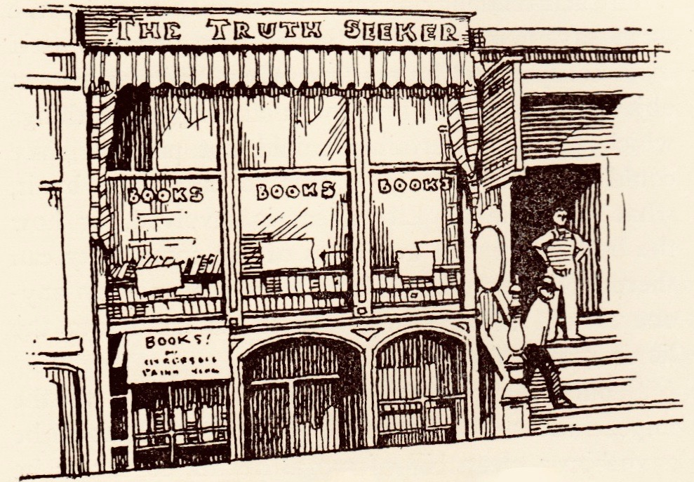 The Truth Seeker office at 21 Clinton Place, Manhattan, New York